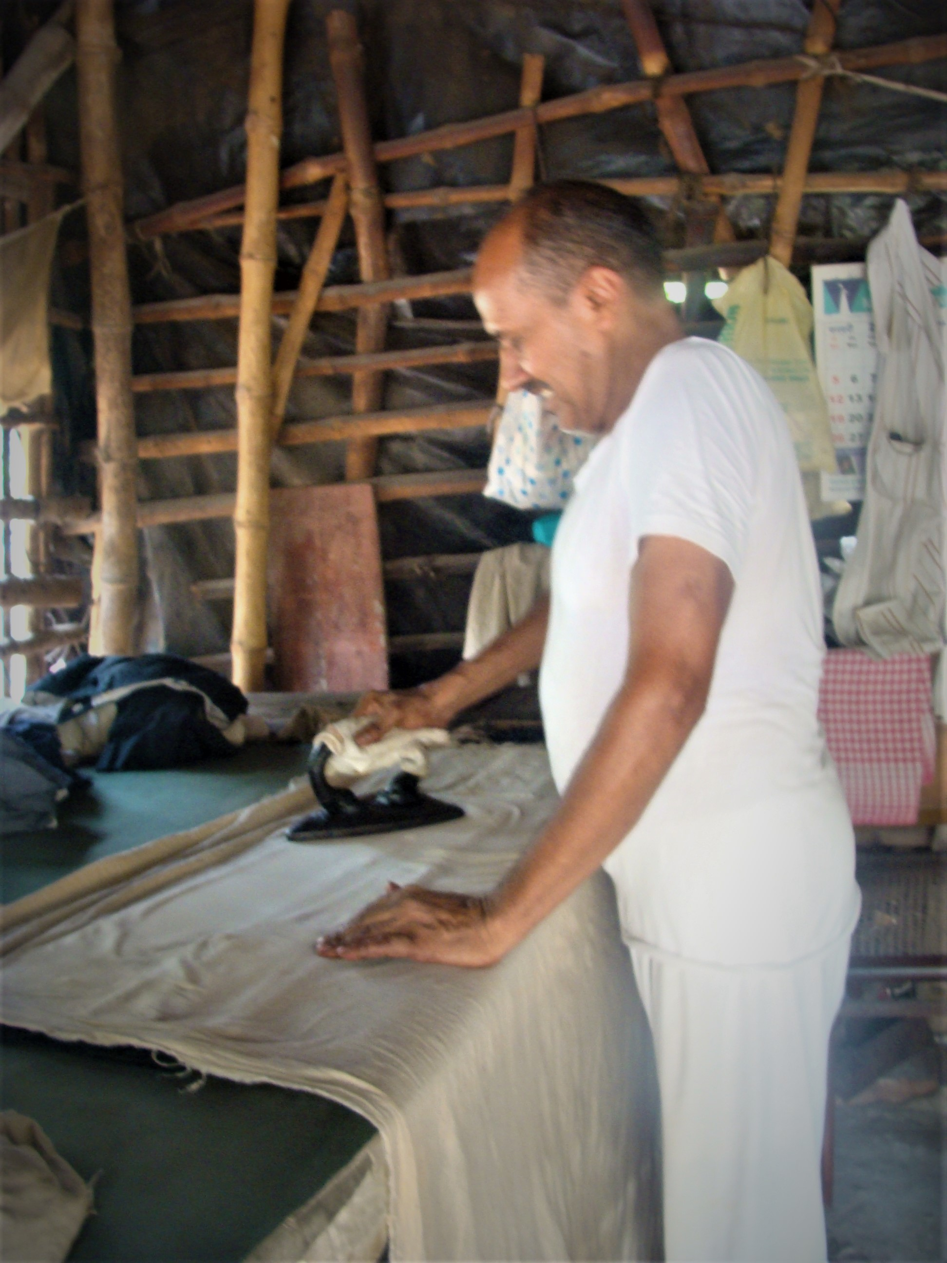 Washer-man ironing clothes